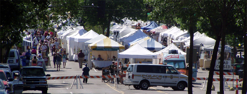 2006 Highland Fest, artist area taken from Ford Parkway.